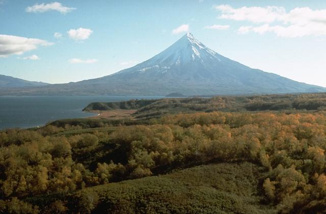 Conical Kronotsky volcano towers above Lake Kronotsky, Kamchatka's largest lake. The lake formed when a series of voluminous lava flows were erupted at the end of the Pleistocene and the beginning of the Holocene on the south side of Kronotsky volcano, damming the Listvenichnaya River. Cinder cones are found on the north and primarily on the SE and SW flanks of the radially dissected volcano. Weak phreatic eruptions took place during the 20th century.